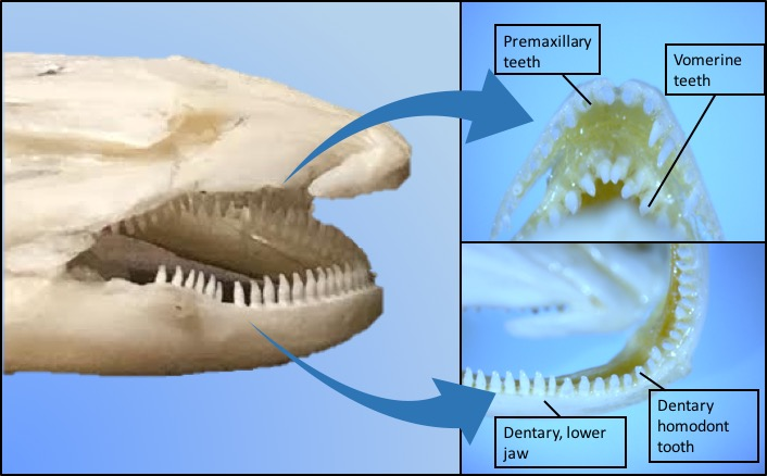 Common mudpuppy teeth structure and placement. Specimen from the Pacific Lutheran University Natural History collection